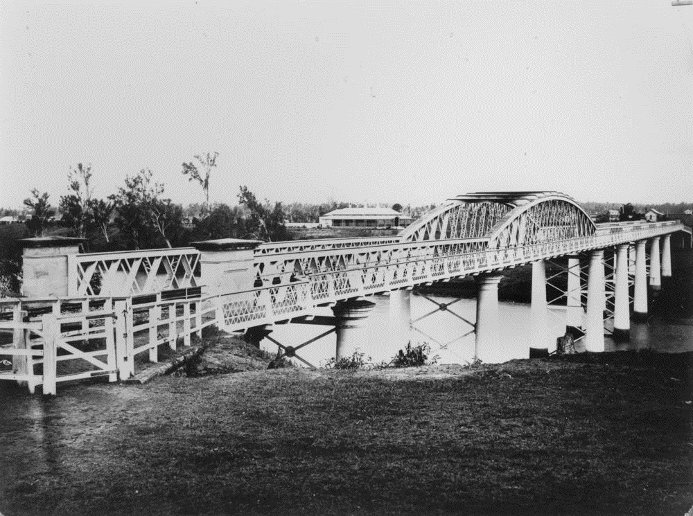 Old Albert Bridge across the Brisbane River at Indooroopilly